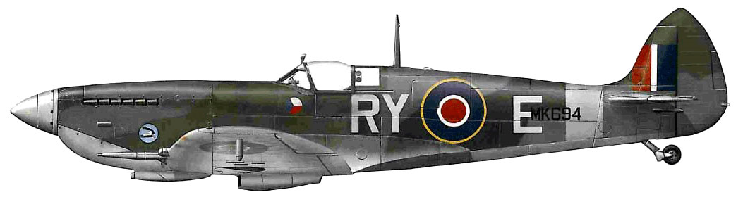 Spitfire Mk.IX